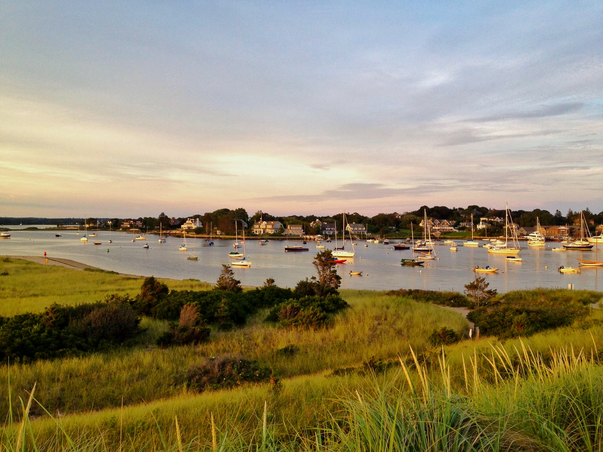 Watch Hill, RI Harbor